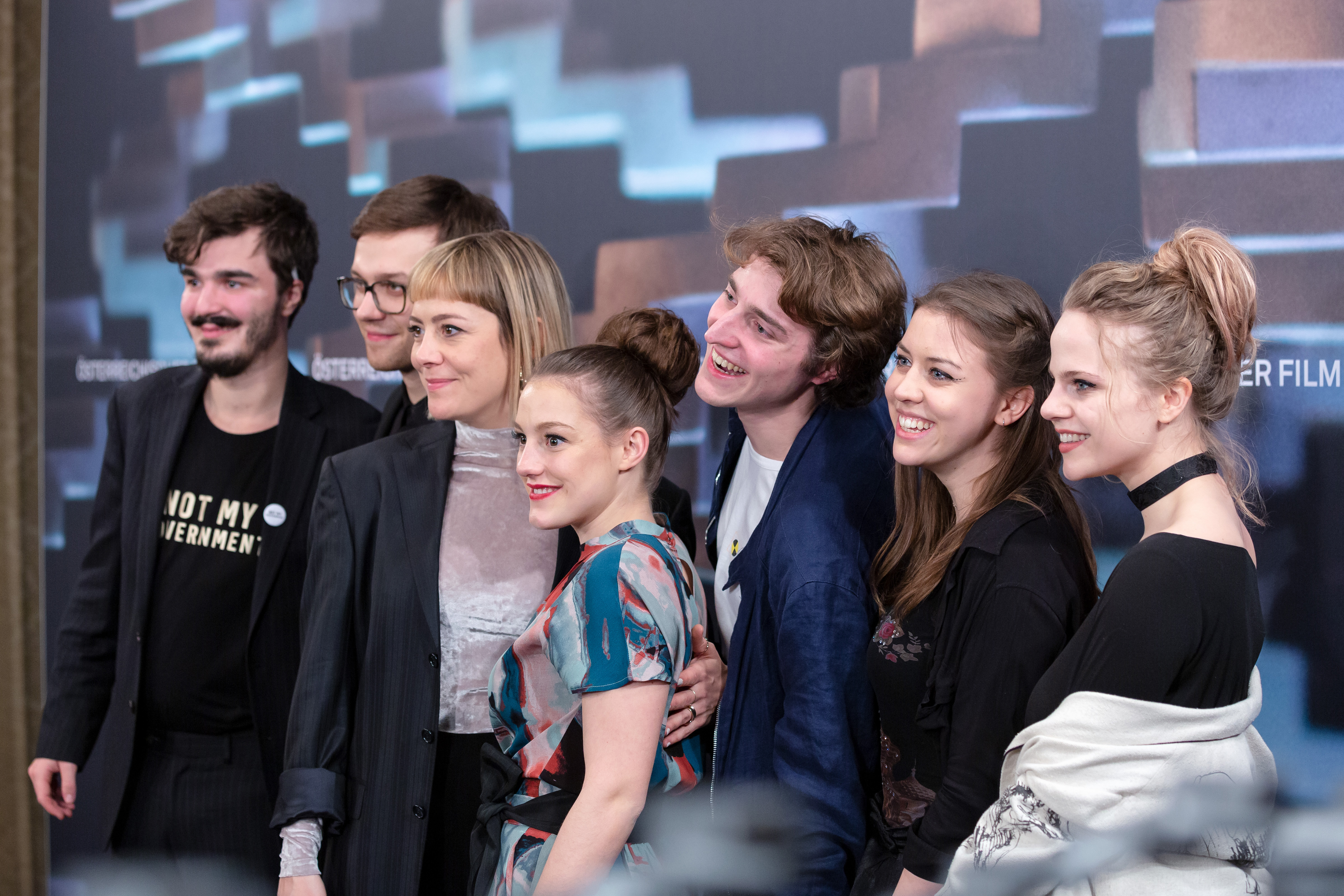 Katharina Mückstein and Sophie Stockinger (director/writer and main actress "L’Animale") with further actors and actresses, photo call at the Austrian Film Awards 2019 (Rathaus, Vienna,Austria).